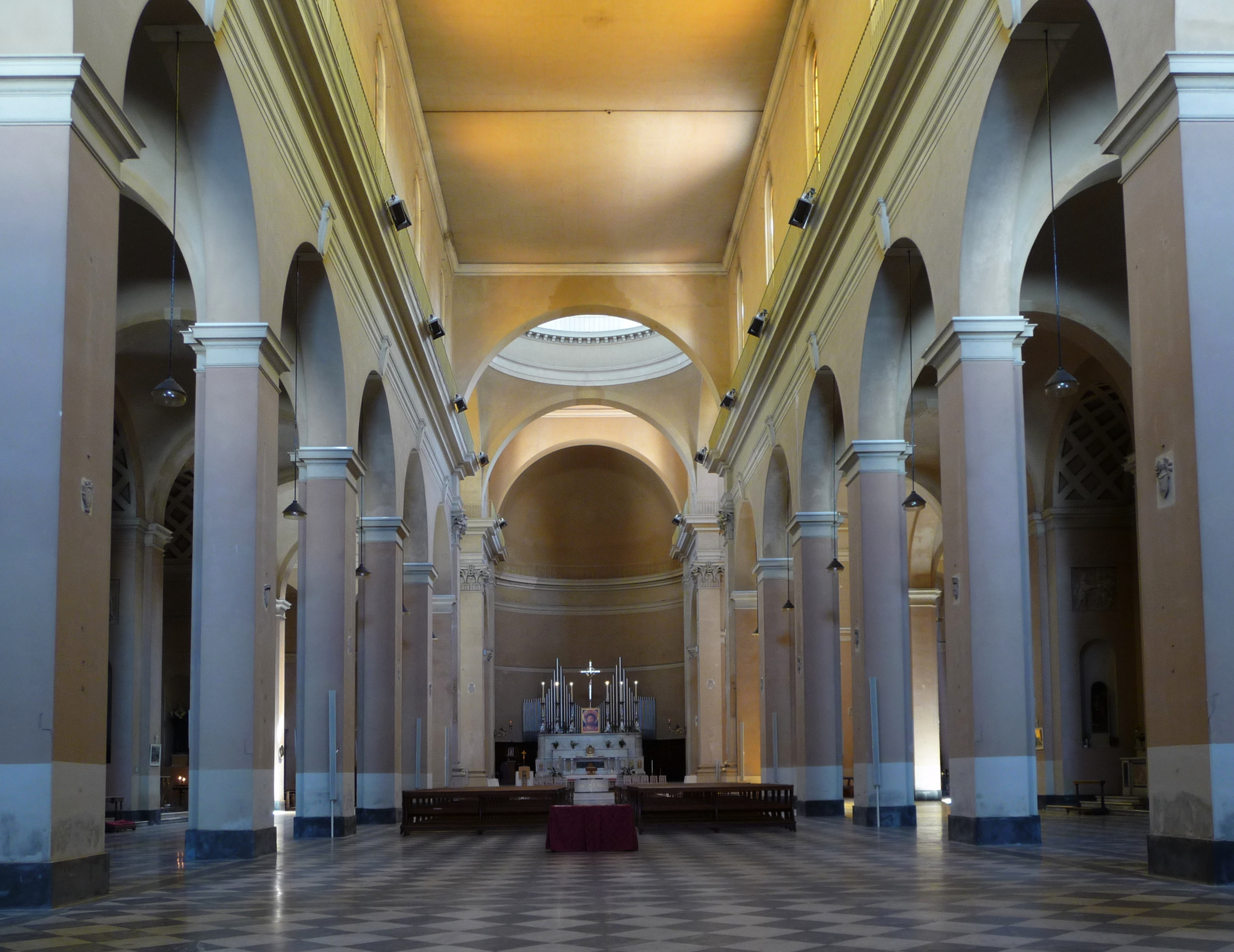 Chiesa di Santa Maria del Soccorso, Livorno, Italy